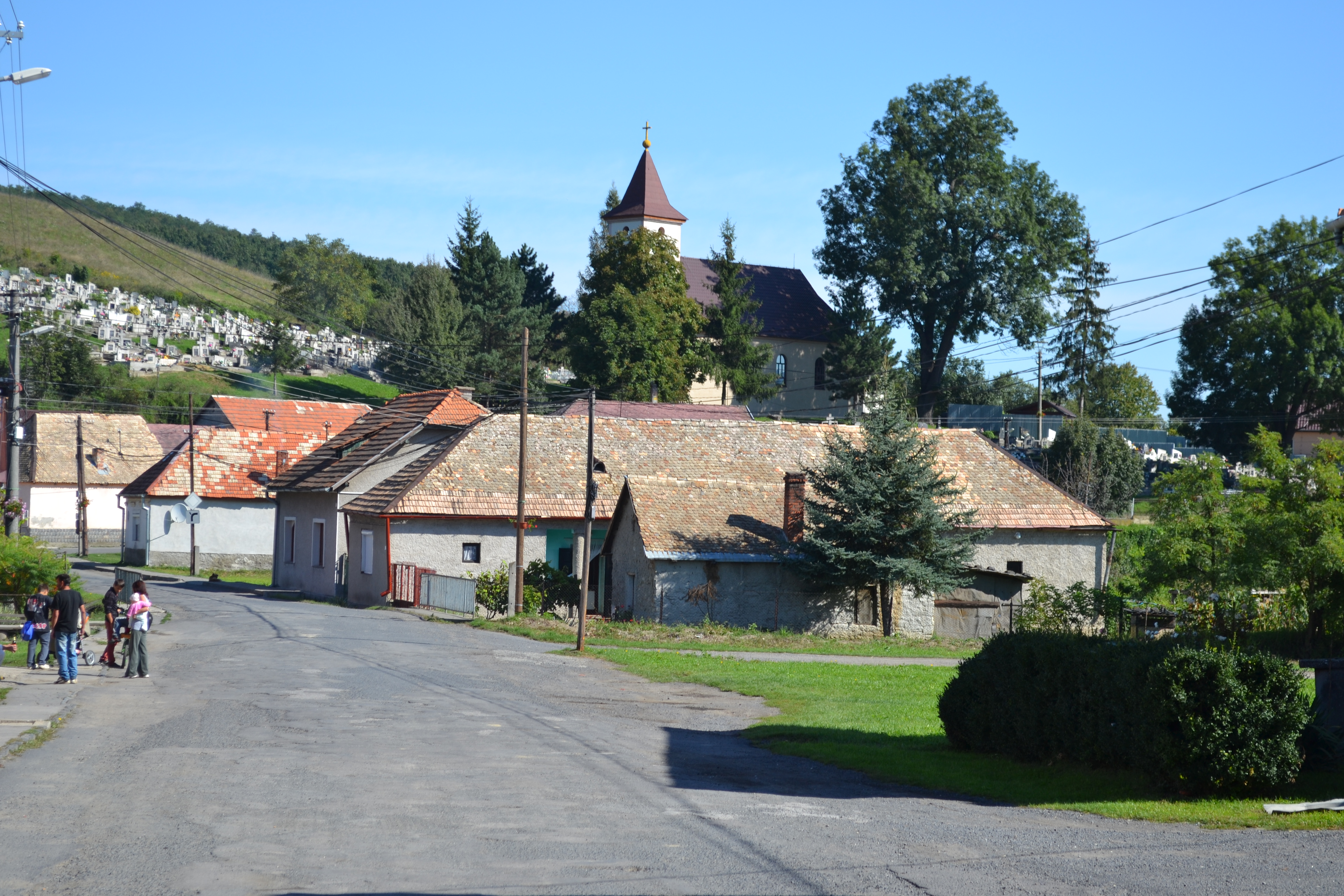 Street of the village ČakanovceSlovenčina: Ulica obce Čakanovce